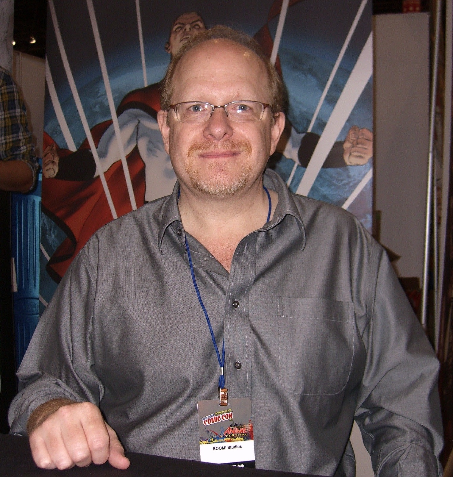 Comic book creator Mark Waid, at the New York Comic Convention in Manhattan, October 10, 2010. Photo by Luigi Novi. This photo may be used, modified and published for any purpose, only if a easily visible credit to the photographer is placed near the photo in each instance in which it is used. (See licensing information below.) Publication of this photo without this proper attribution constitute copyright infringement. For more information on my photos, you can contact me here.